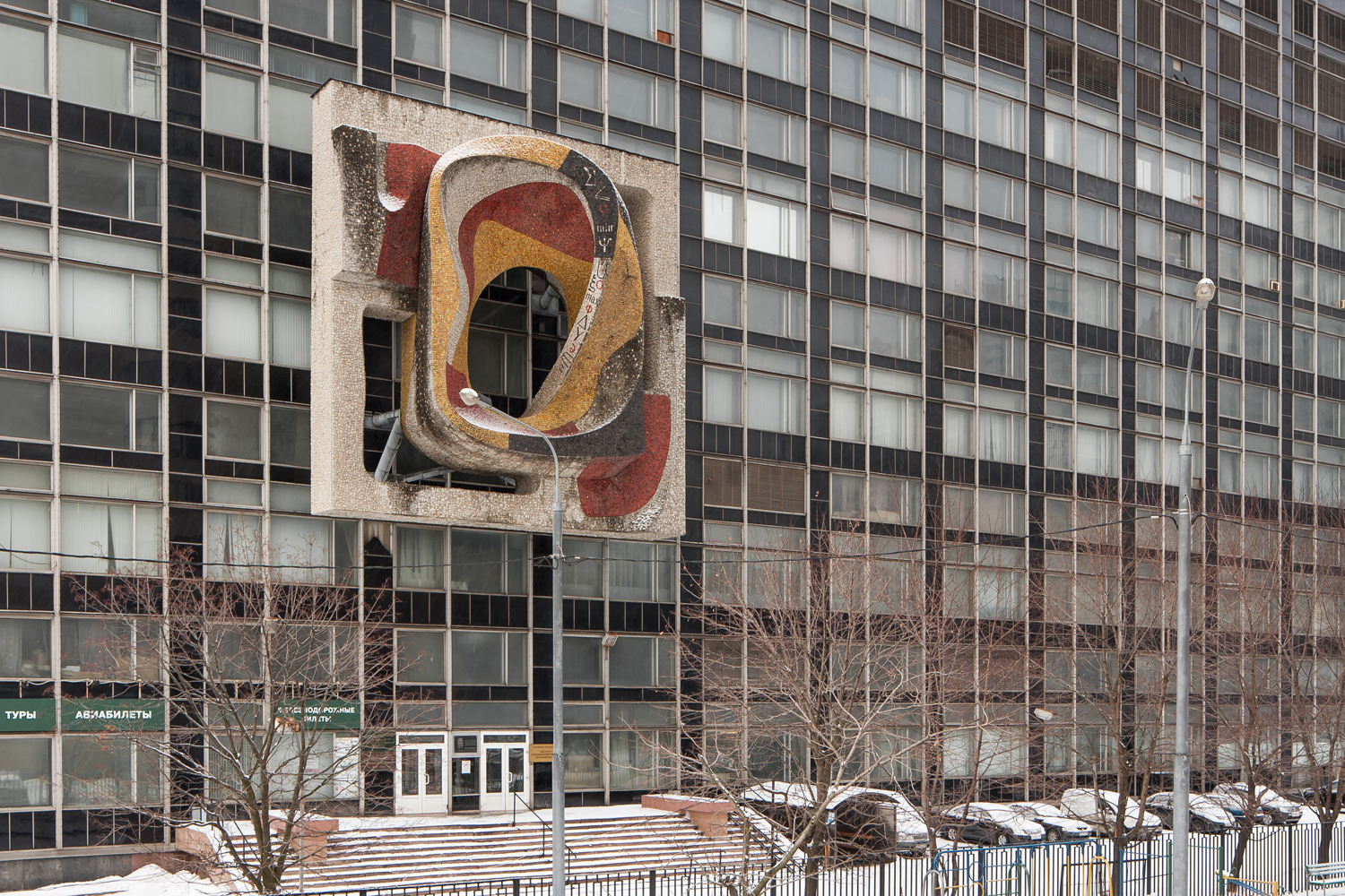 Entrance to the building of Central Economic Mathematical Institute of the Russian Academy of Sciences